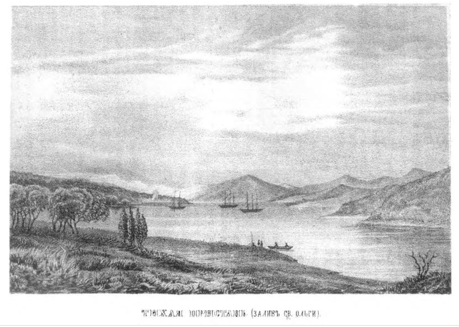 "Tikhaya Pristan (Olga Bay)". Page 249 of Aleksei Vysheslavtsev's Book. Illustration from Aleksei Vysheslavtsev's Ocherki perom i karandashom, iz krugosvetnogo plavaniya (Sketches in Pen and Pencil from a Voyage around the World).